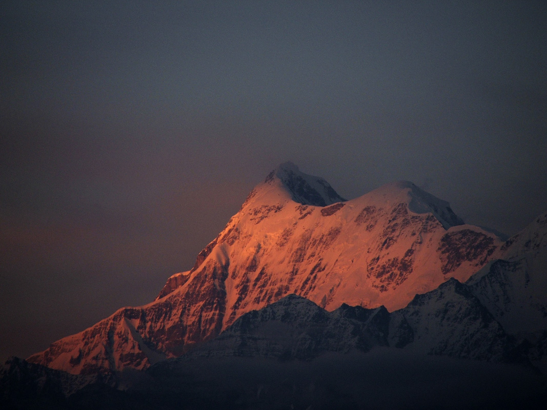 Trisul from Gwaldam